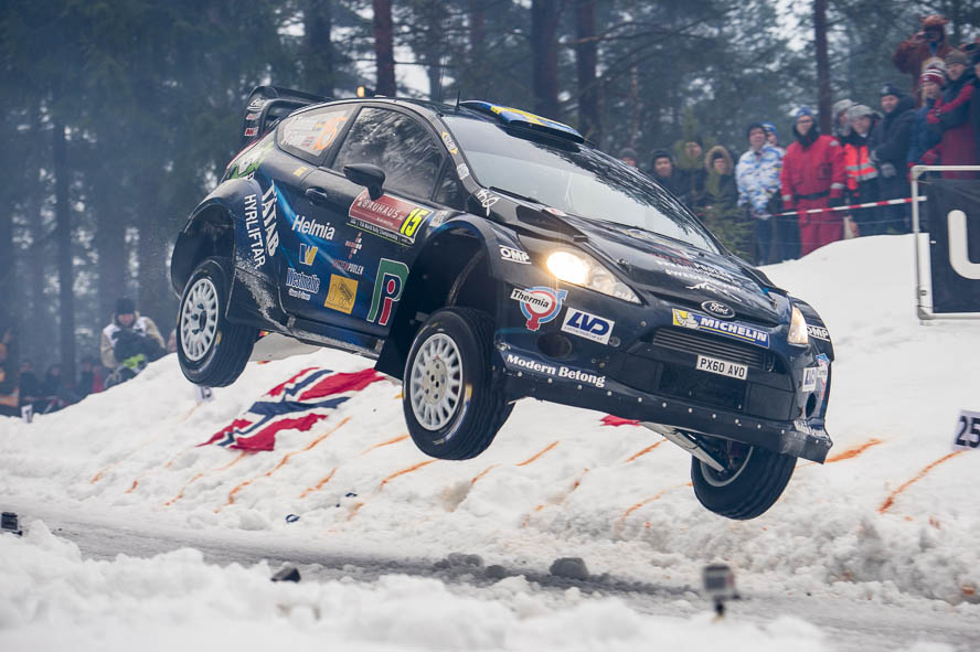 Rally Sweden 2014 Colin's Crest Arena,Ford Fiesta RS WRC,Motorsport,Ola Floene,Pontus Tidemand,Rally,Rally Sweden,Rallye,Rallye Schweden,SS19,Vargäsen 1,WP19